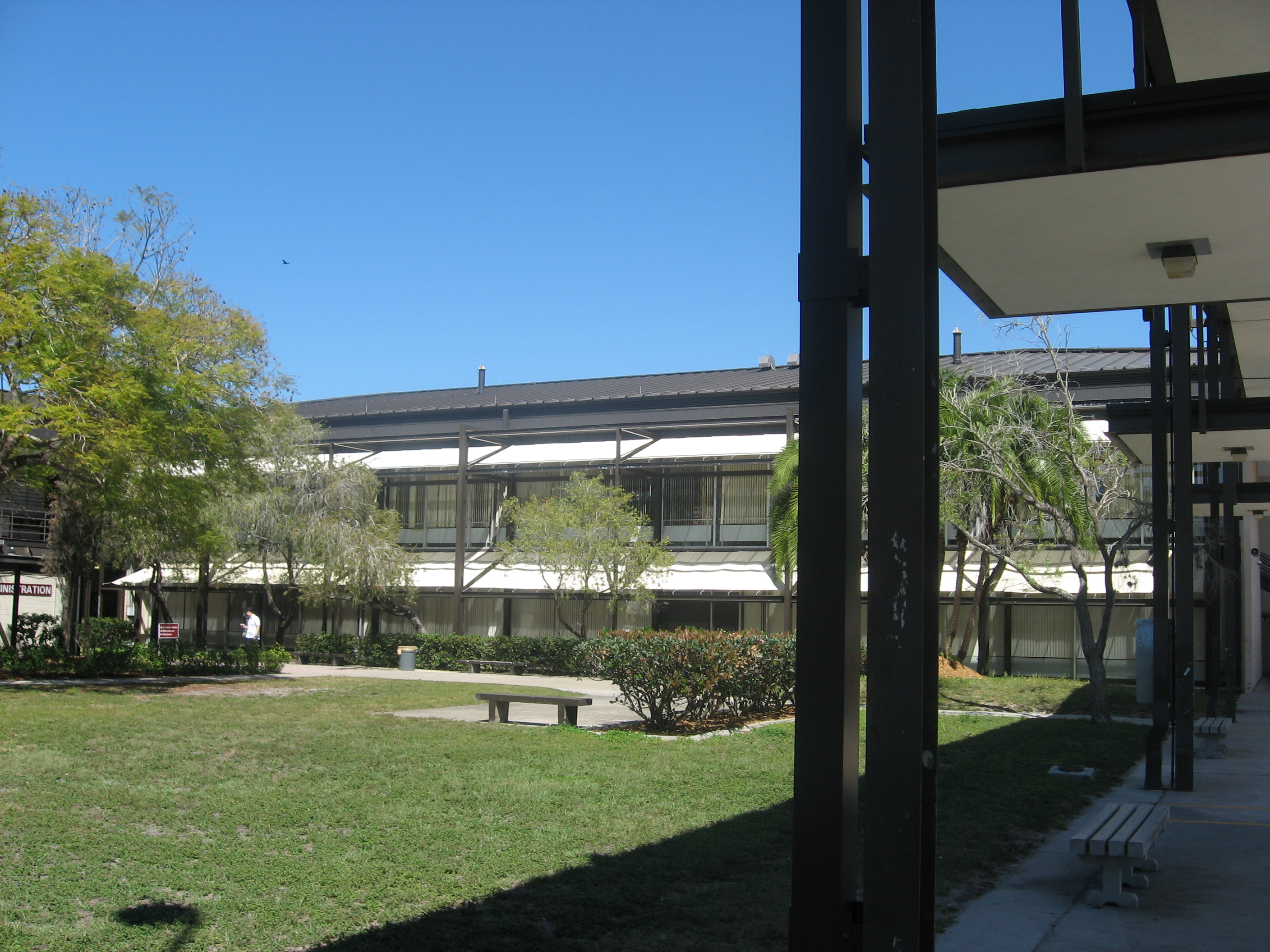 Riverview High School - Sarasota, Florida - The old cafeteria was located just behind the administration building, and opened onto this main courtyard